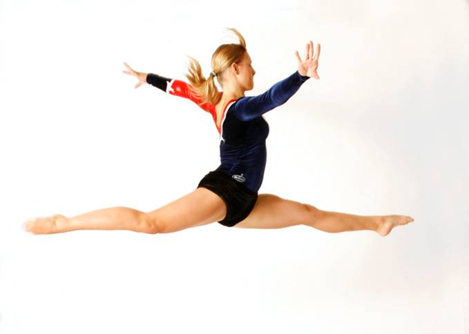 Sandra Ostad, gymnast from Oslo, Norway.